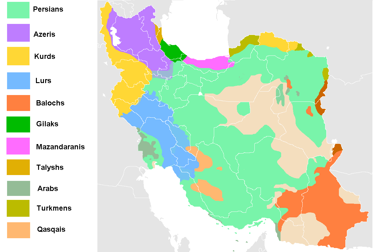 distribution of the languages and ethnic groups of Iran Other information Previous map had many mistakes. i fixed them based on sources.